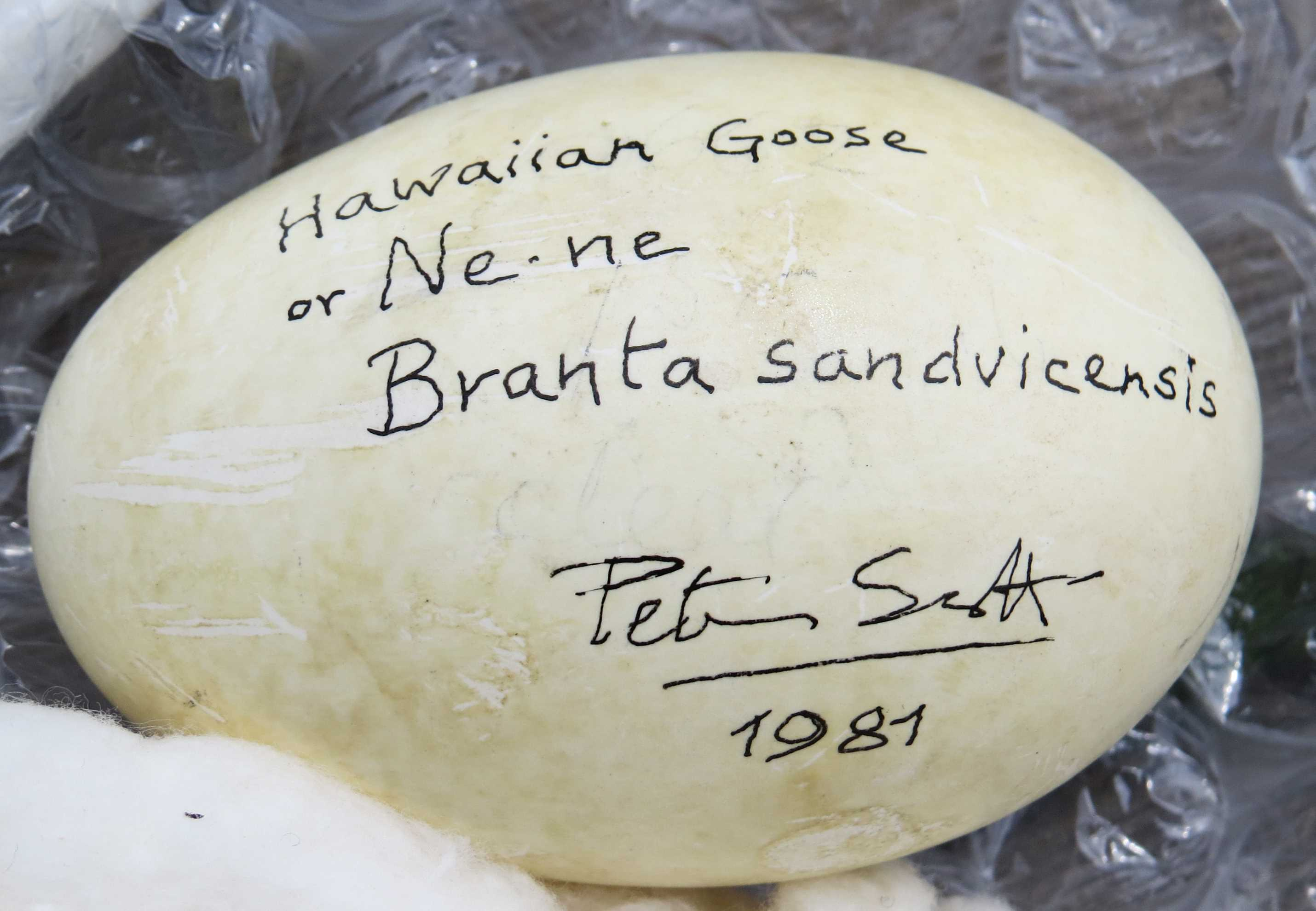 The original Nene egg signed by Sir Peter Scott and used as the trophy in the Big Bird Race